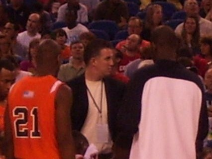 Purdue Boilermakers men's basketball.